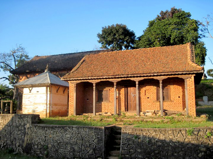 Mathurapati at Mathurapati VDC, Kavrepalanchok District, Nepal